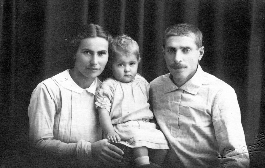 1919, Ben-Zion Israeli, his wife Haia and their daughter Amalia